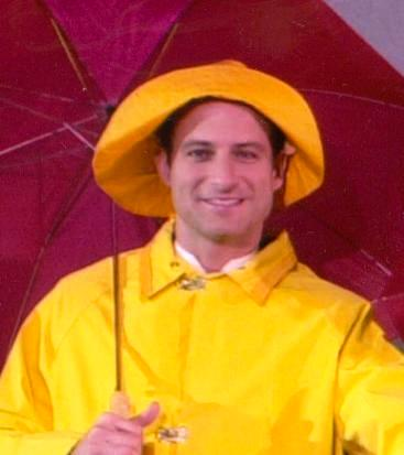 A photo that I took of Michael Gruber during a break of a dress rehearsal of the musical production Singing In The Rain in 2000. I worked there as a make-up artist and had an opportunity to take this shot of Michael as I am a big fan of his.